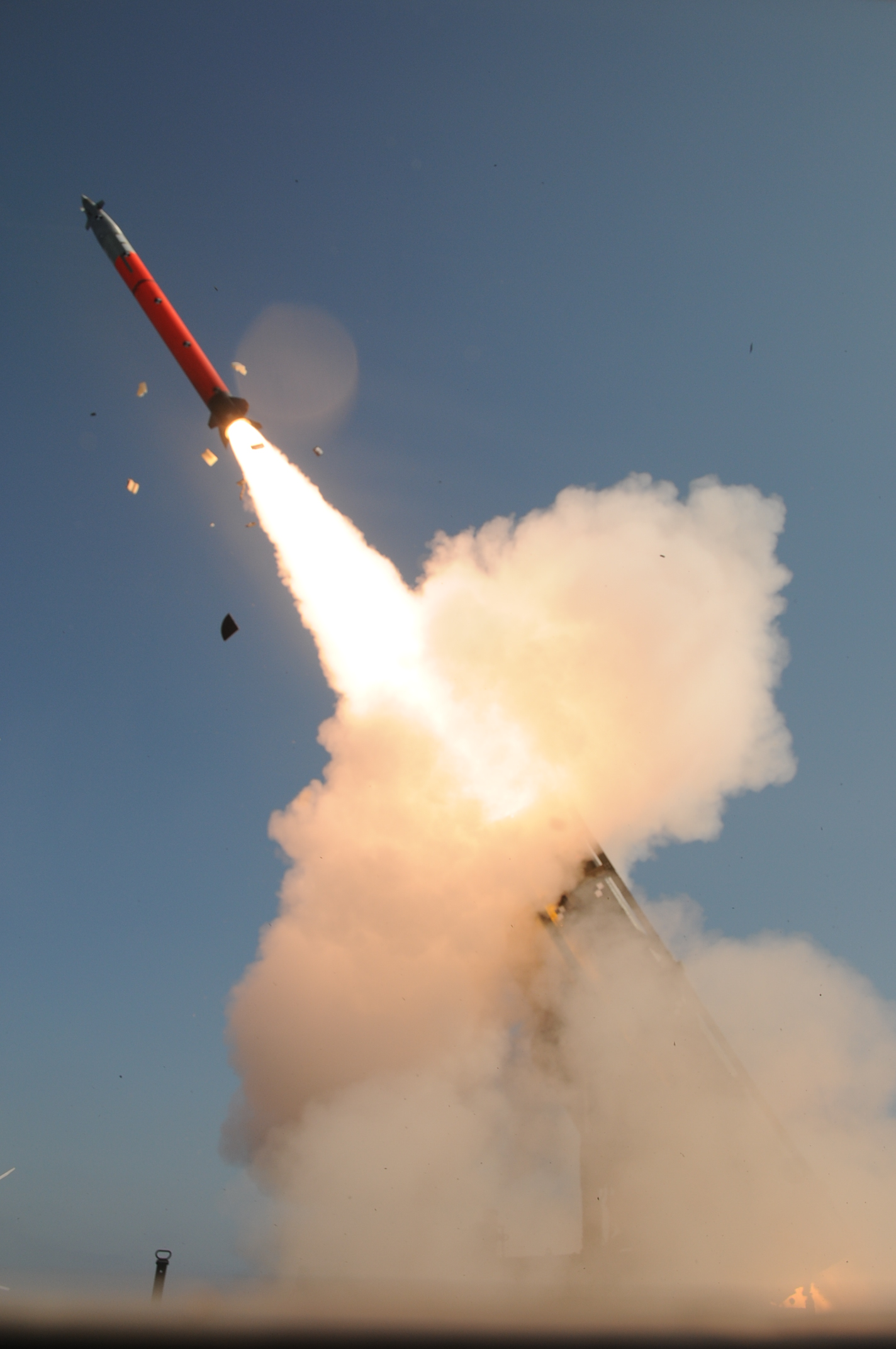 IMI EXTRA (EXtended Range Artillery Rocket) 306mm artillery rocket system